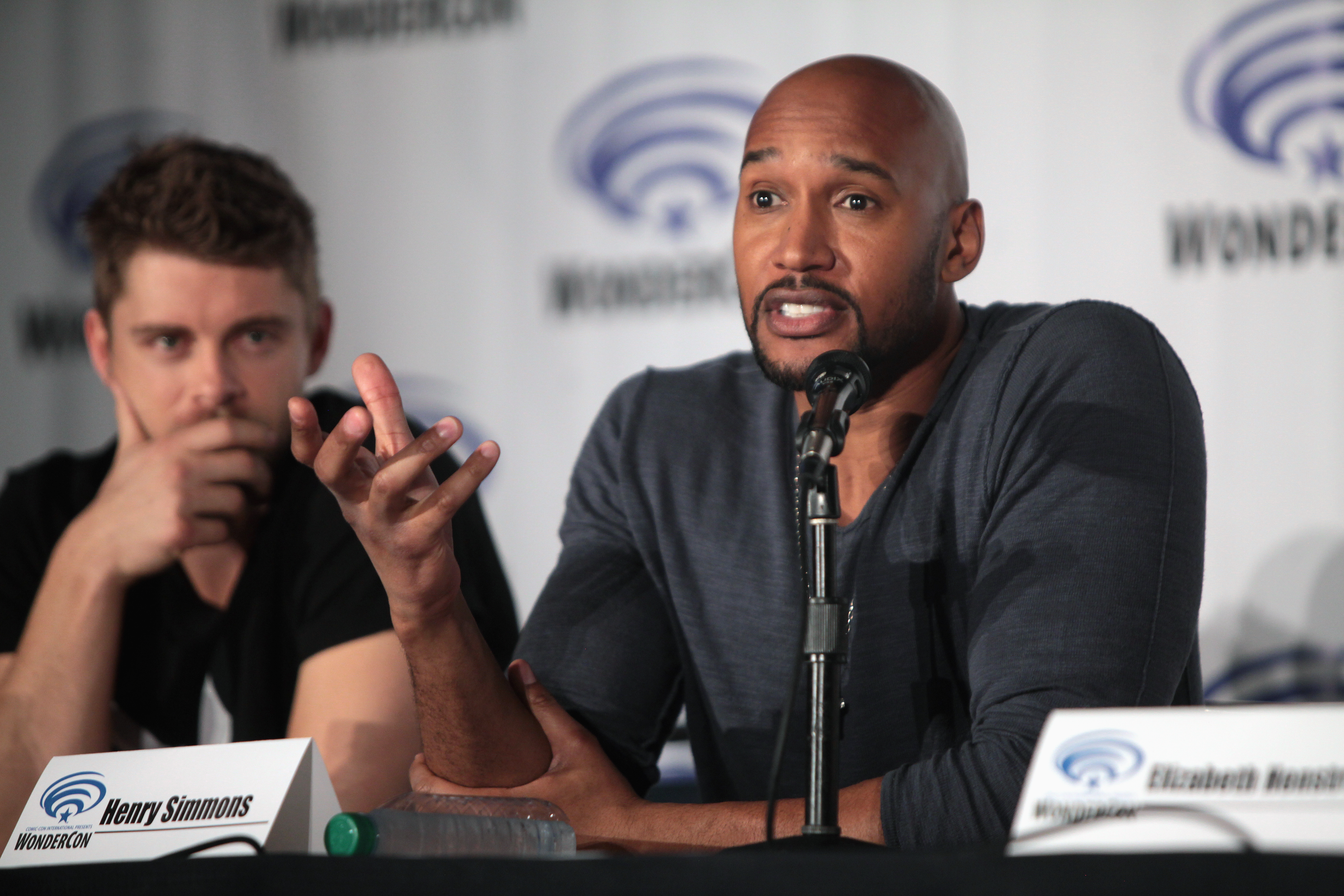 Luke Mitchell and Henry Simmons speaking at the 2016 WonderCon, for "Marvel's Agents of S.H.I.E.L.D.", at the Los Angeles Convention Center in Los Angeles, California.